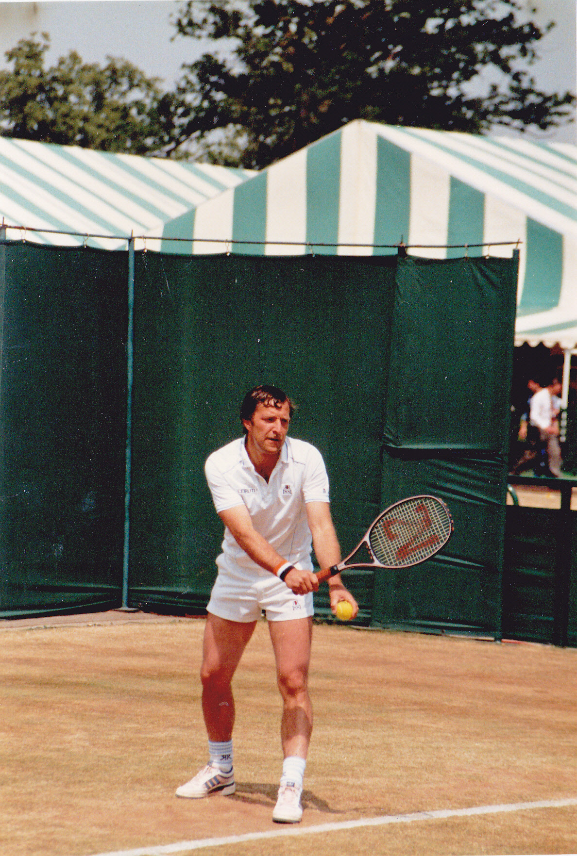 Jan Kodes Wimbeldon veterans cica 1987